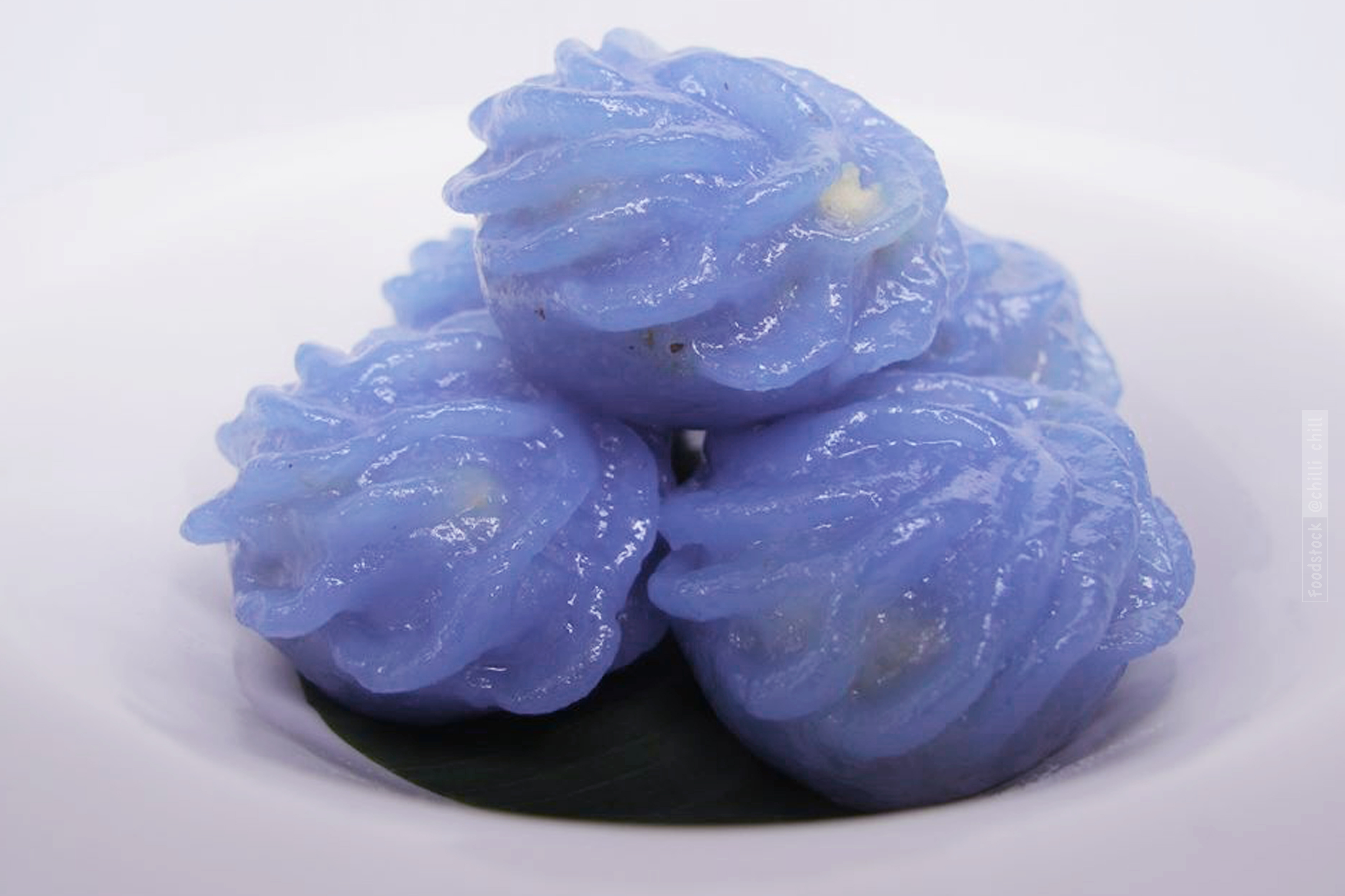 Cho muang (ช่อม่วง; literally "purple bunches"), an ancient Thai sweet food